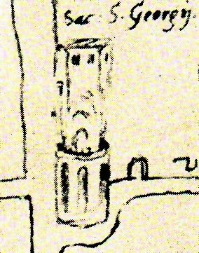 Maastricht, the Netherlands. View of the former chapel of Saint George in Grote Staat (corner Dominicanerkerkstraat). Detail of a map by Simon de Bellomonte, c 1570.